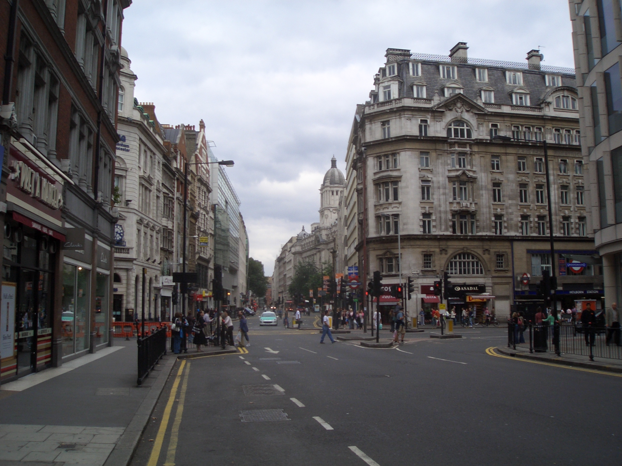 Photo of High Holborn taken 24 September 2005 by User:Edward.